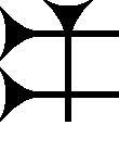 𒉺, the cuneiform sign PA or GIDRU